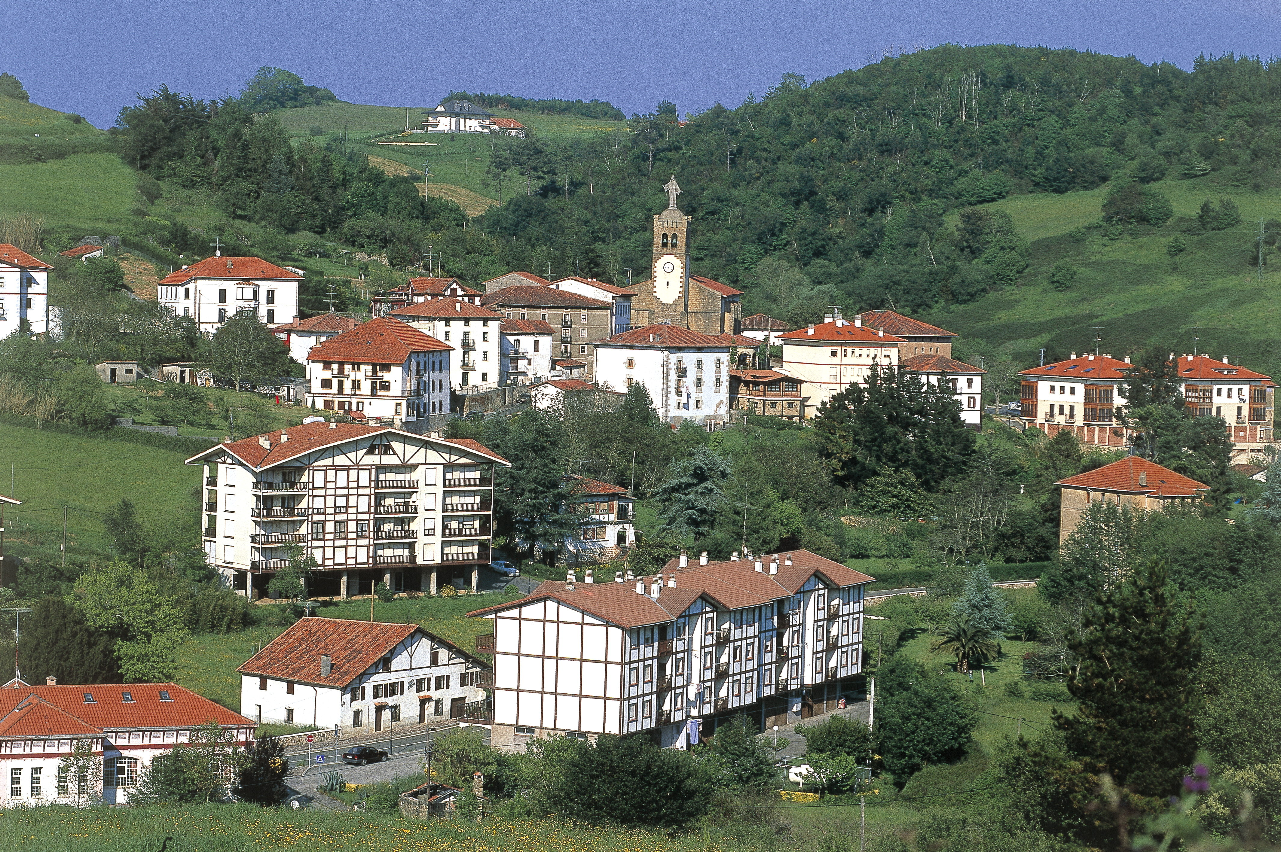 Ibarrangelu, Bizkaia. Basque Country.